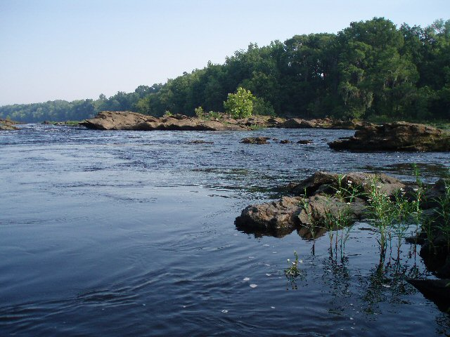 Pipeline falls on the Coosa River near Wetumpka, Alabama